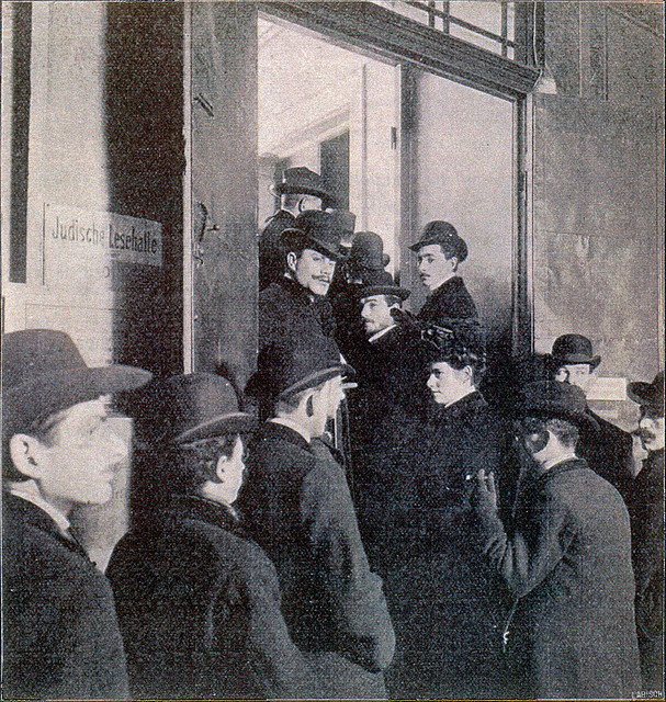 Entrance of the "Jüdische Lesehalle" in Berlin around 1905